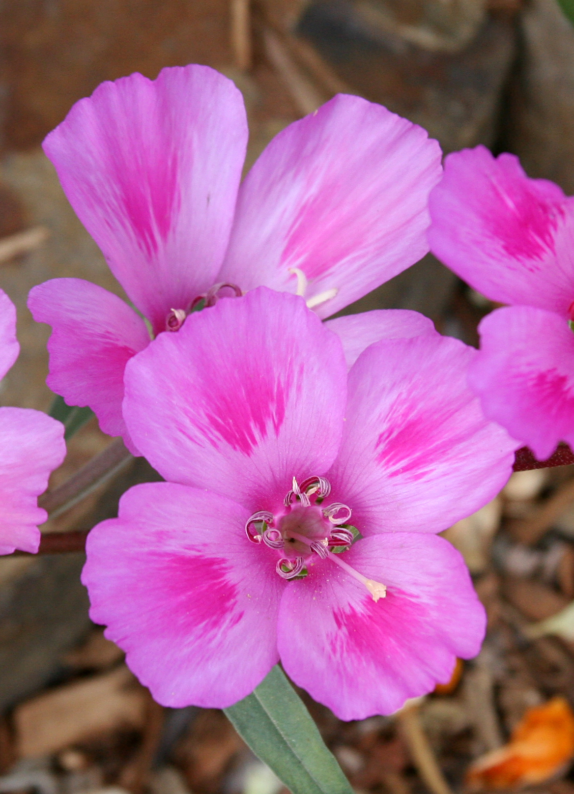 Clarkia amoena subsp. whitneyi